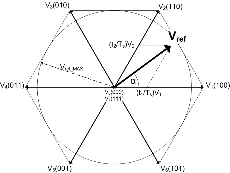 Diagram of the hexagon of possible switching vectors for a three leg converter along with Vref and the calculated switching times for two vectors.